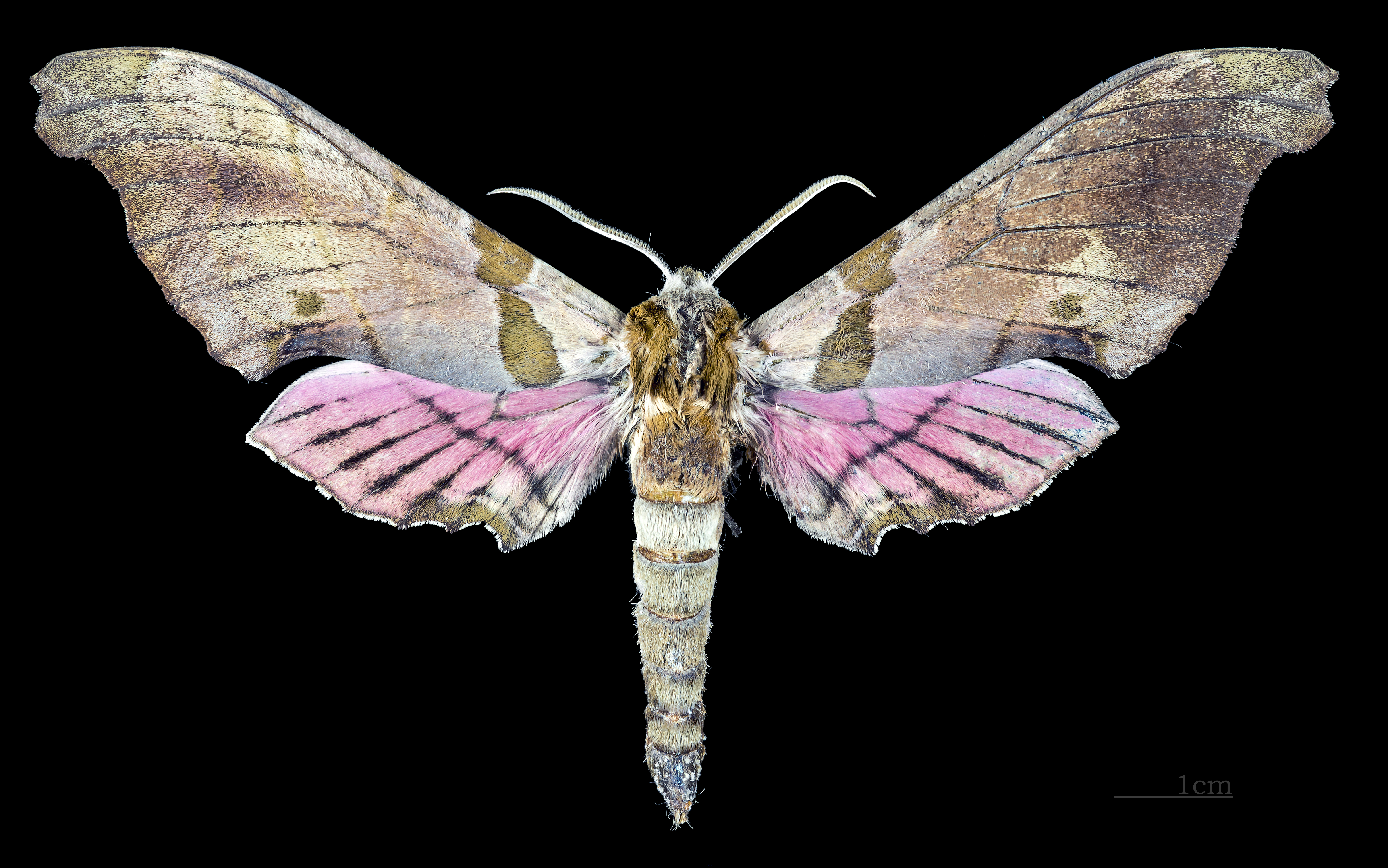 Trogolegnum pseudambulyx - Dorsal side Collection of the Mathematician Laurent Schwartz